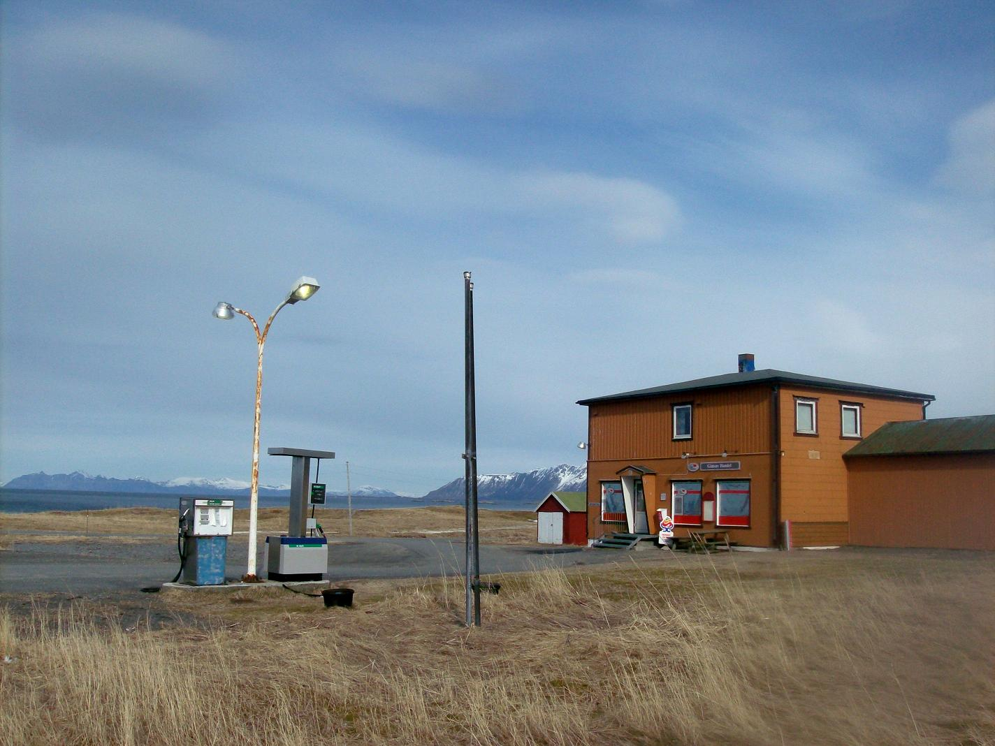 Shop and gas station on Gimsoy, Lofoten Islands, Norway